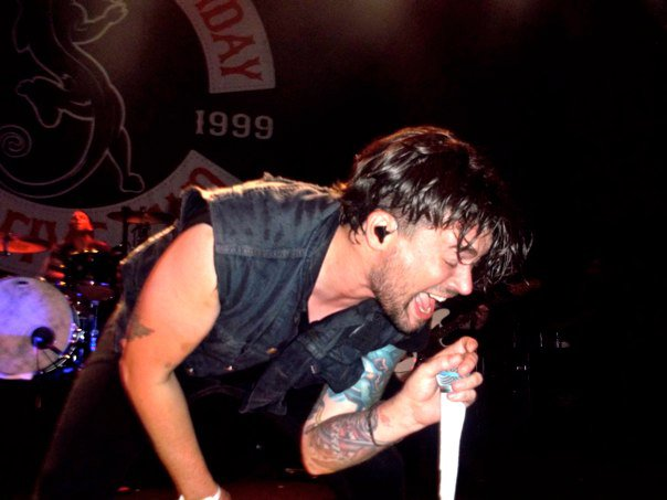 Taking Back Sunday perform at Rams Head Live in Baltimore, MD in July 2011